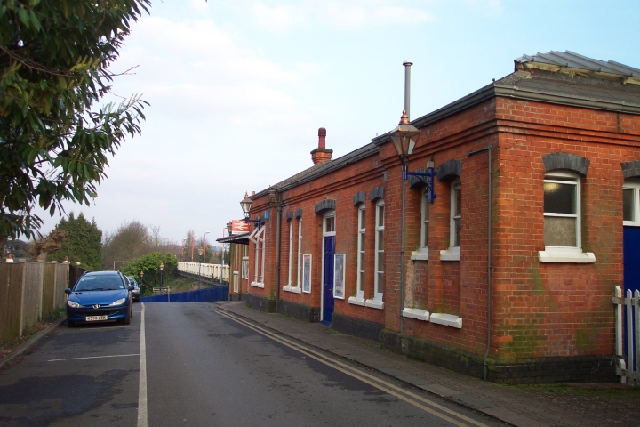 Pangbourne railway station buildings, from the station access road. For more information see the Wikipedia article Pangbourne railway station.